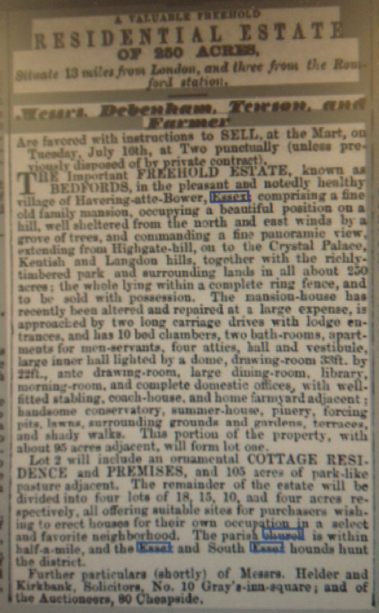 In Chelmsford Chronicle June 21st, 1867 page 4, the mansion was listed for sale with a full description of the estate